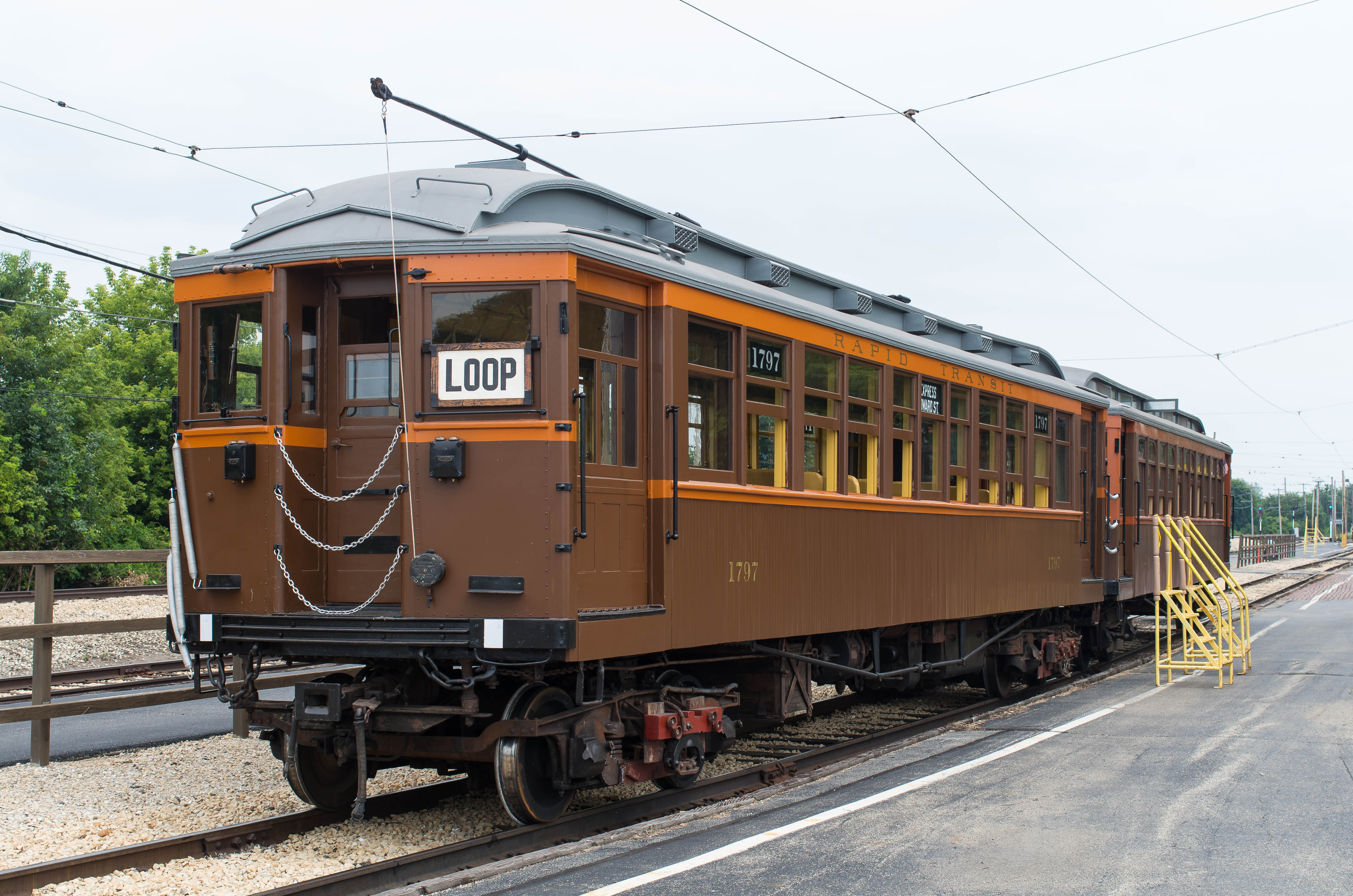 Northwestern Elevated Railway car 1797 at the Illinois Railway Museum in Union, Illinois, USA. Painted in Chicago Rapid Transit Company brown and orange livery.